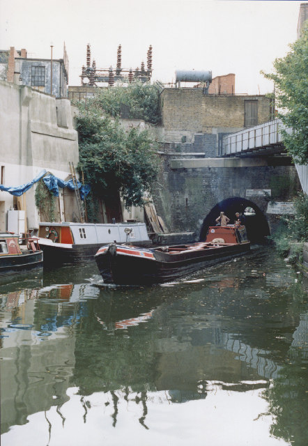 Working Narrowboat. On the Regent's Canal in Lisson Grove a freight narrowboat emerges from the tunnel under the Edgware Road. Above can be seen the electricity substation on the corner of Aberdeen Place and Cunningham Place. The Regent's Canal is part of the Grand Union network - for more info.